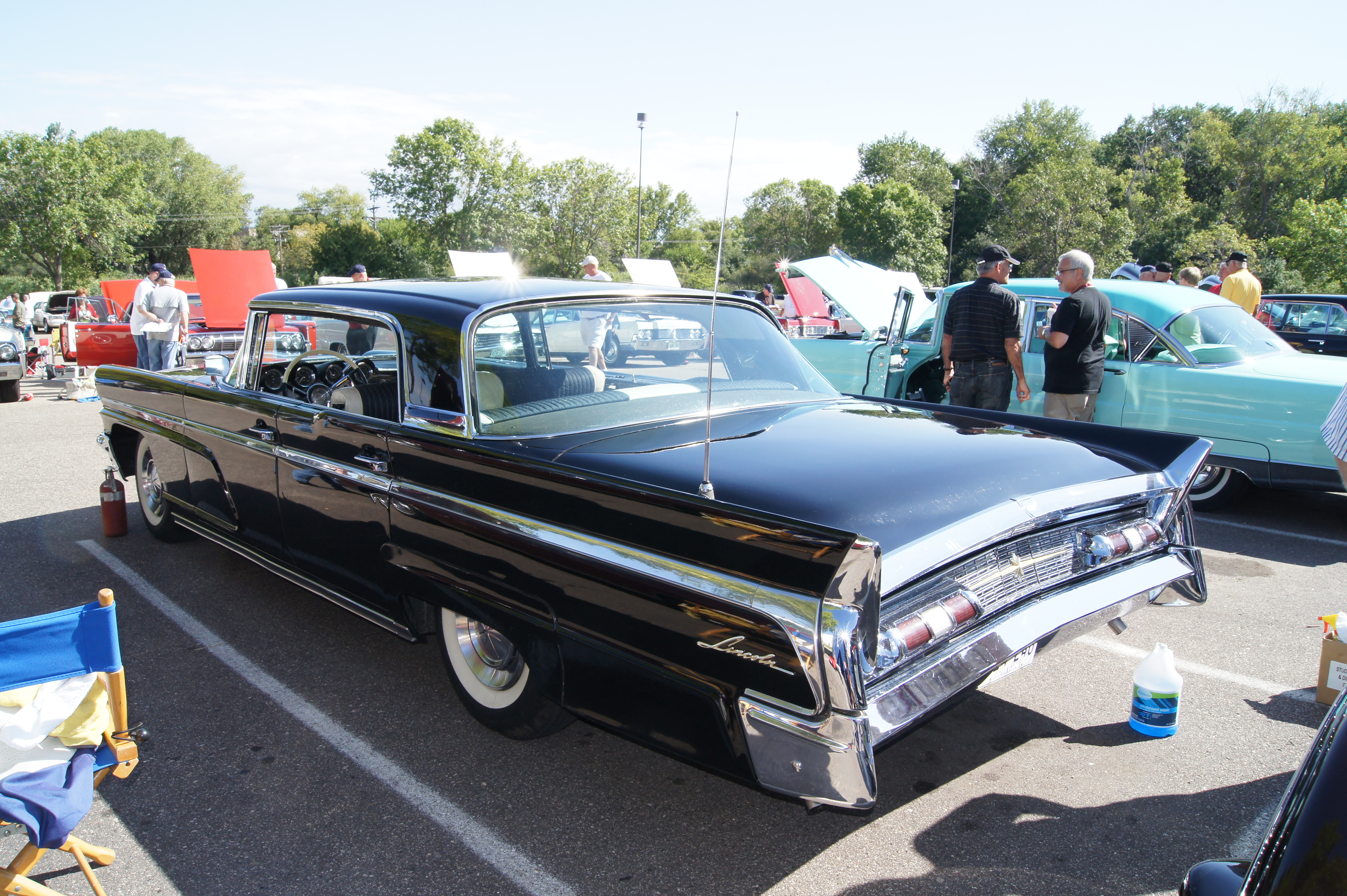 There is controversy if Continental and Lincoln were separate makes from 1958-1960. I went to my library and pulled out the book “American Cars 1946-1959″ by J.”Kelly” Flory Jr. and found Lincoln and Continental listed separately. However each section includes this statement “The Continental’s all-new body styling was also shared with the Lincoln, and in fact during the model year (1958) the Continental Division would be brought under the umbrella of the newly created Mercury-Edsel-Lincoln (or MEL) division. This was a cost-saving move as the Edsel was not proving to be money maker that Ford thought it would be, it not only saved expenses on the Edsel but also allowed marketing of the Lincoln and Continental to be combined. From 1958 through the Continental’s official demise as a separate entity in 1960, the Lincoln and Continental shared styling and power-trains, and were generally advertised together. Also, beginning with the 1958 model year, serial numbers were kept as a combined unit, with the code 4 designating the Lincoln division for both Lincoln and Continental. However, for this reference the Continental will continue to be kept as a separate division.” Wow! crystal clear now :) and it reminded me why I usually avoid this territory. Lincoln & Continental Owners Club 2012 Mid-America National Meet August 15 - 19, 2012 Park Plaza Hotel, 4460 West 78th Street Circle Bloomington, Minnesota Hosted by the North Star Region